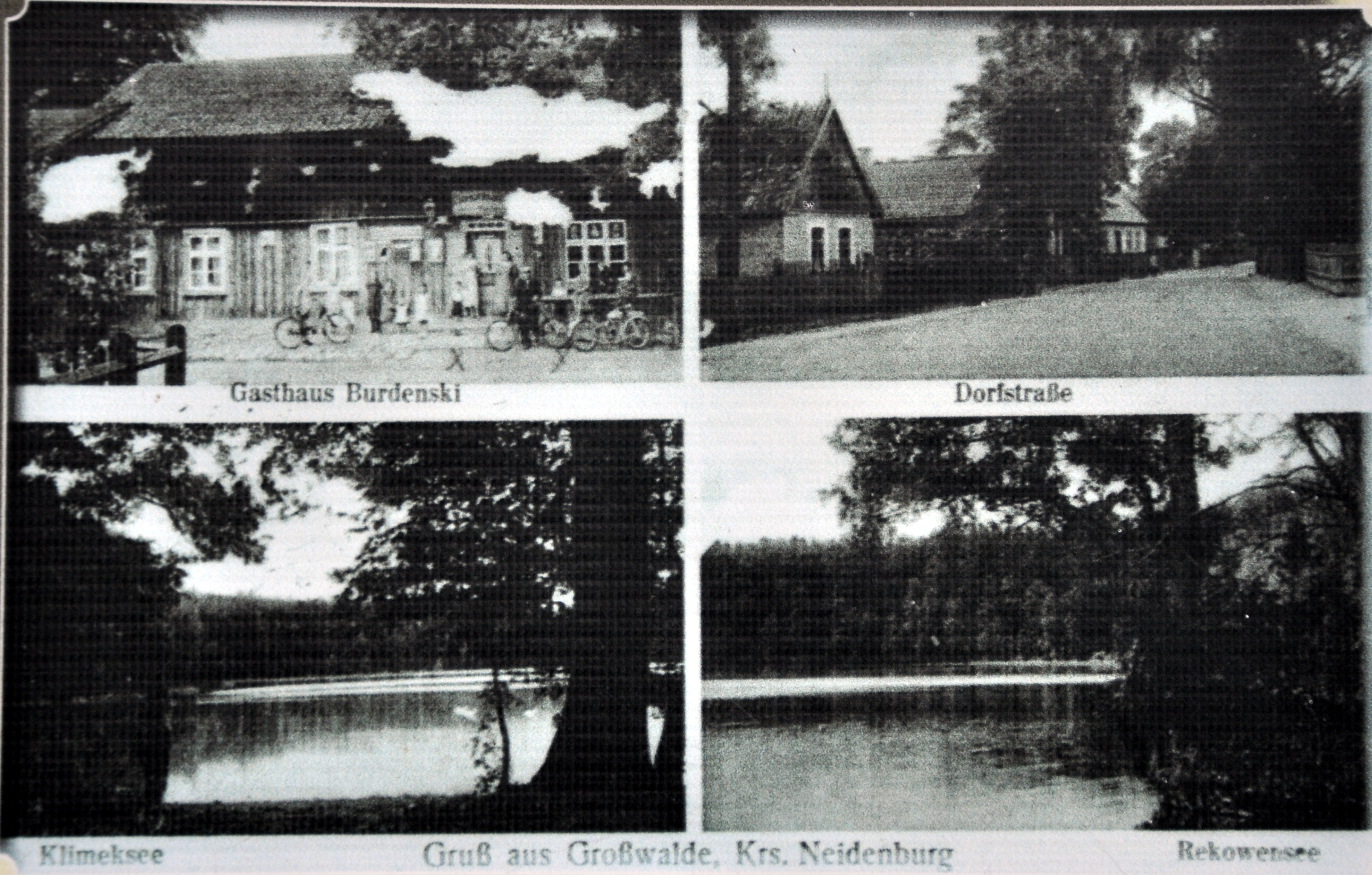 Pre-WWII postcard from Rekownica, cropped from File:Rekownica, Warmia-Masuria 1